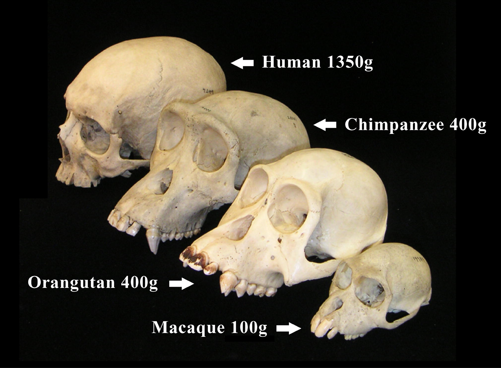 Primate skulls provided courtesy of the Museum of Comparative Zoology, Harvard University.